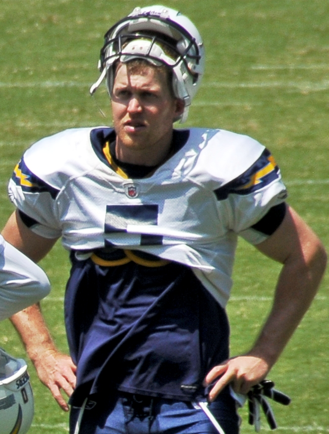 Mike Scifries at the Chargers' practice on August 2, 2008